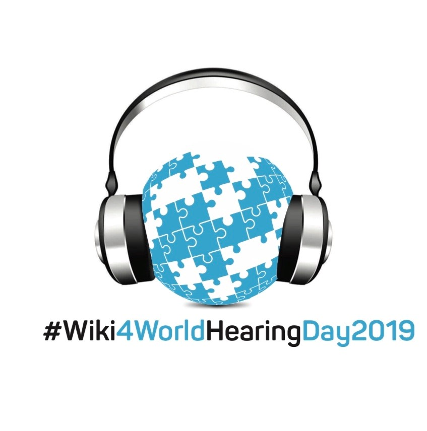 Created for an event to promote hearing health